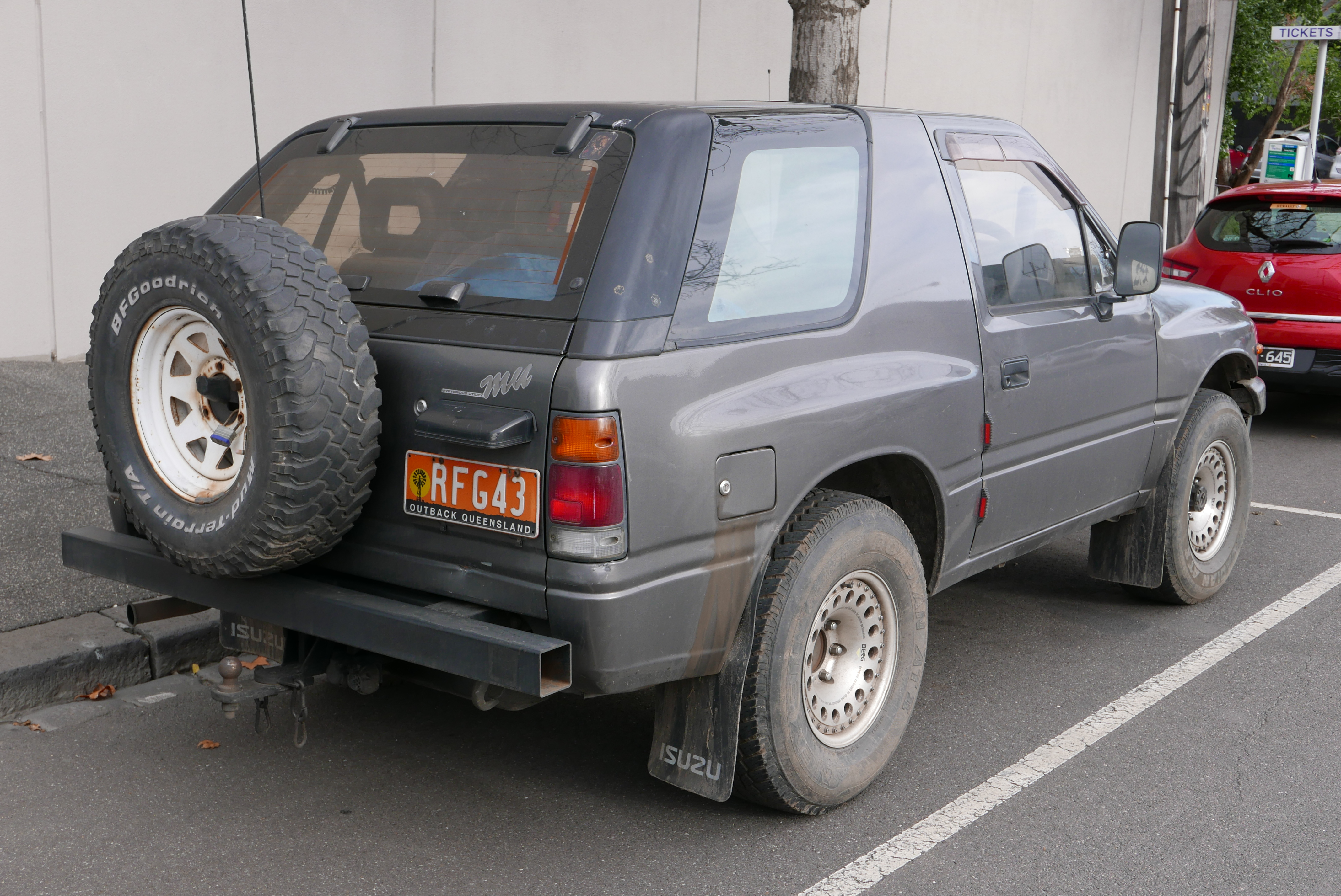 1993 Isuzu MU (UCS55) hardtop. The wheels are aftermarket. This is a grey import from Japan, complianced for Australia. Photographed in West Melbourne, Victoria, Australia. Vehicle registration enquiry results Jurisdiction Queensland Registration RFG43 Chassis code 6T91MPAAAPXBAE003 Year of manufacture 1993